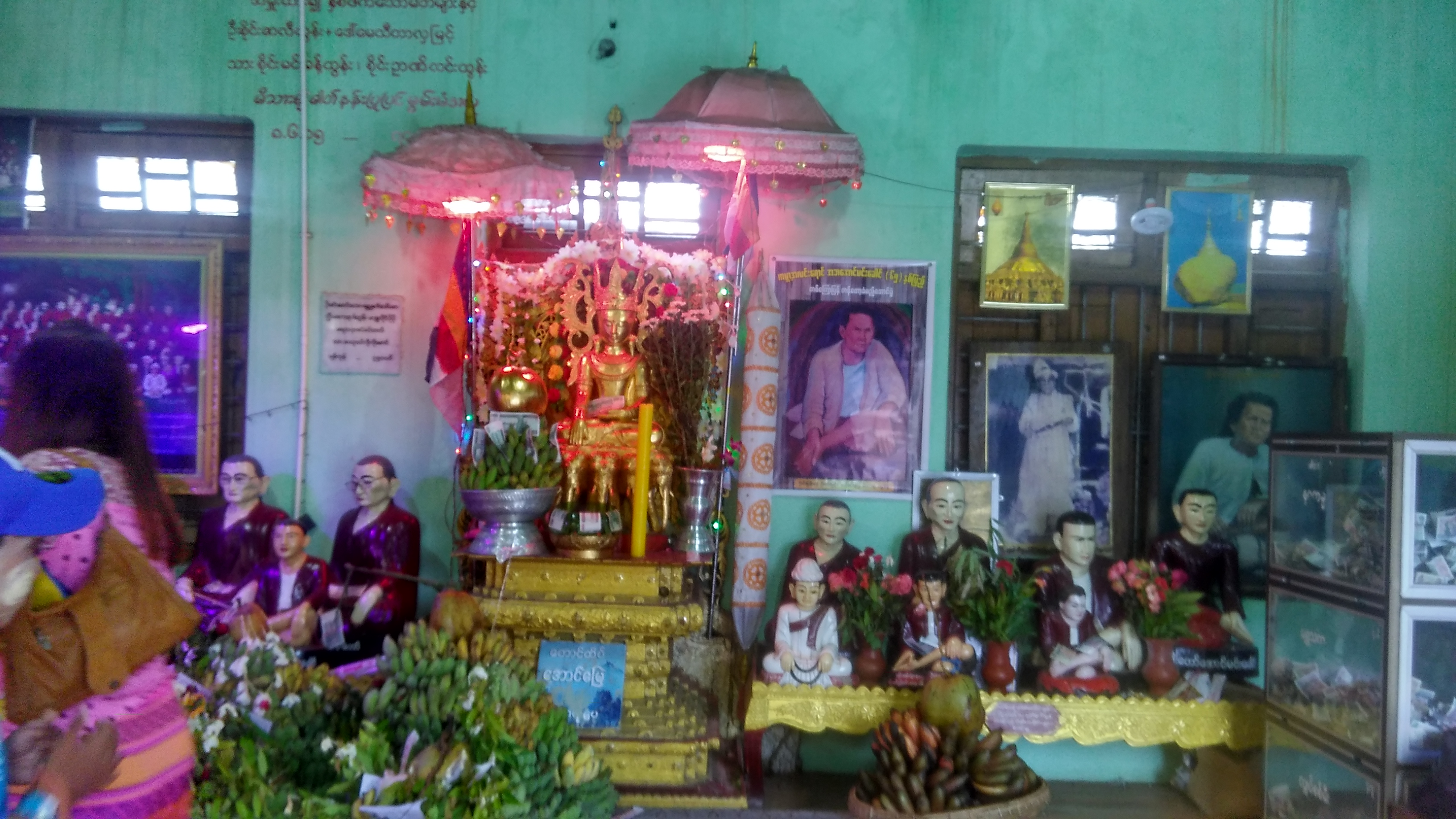 Nat Nann at Popa မြန်မာဘာသာ: ပုပ္ပါးတောင်ရှိ နတ်နန်းနေရာ။